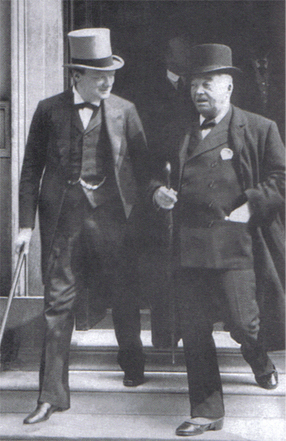 Lord Fisher and Winston Churchill, First Lord of the Admiralty, after a meeting of the Committee of Imperial Defence. Reproduced facing page 34 in Fisher of Kilverstone, Lord (1959). Marder, Arthur J.. ed. Fear God and Dread Nought: The Correspondence of Admiral of the Fleet Lord Fisher of Kilverstone: Restoration, Abdication and Last Years, 1914-1920. Volume III. London: Jonathan Cape.